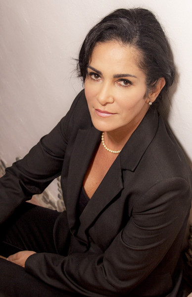 Lydia Cacho en su casa en Cancun